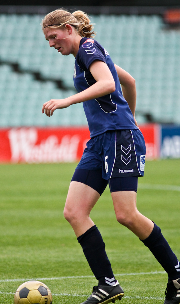 Maika Ruyter-Hooley playing for Melbourne Victory FC in the W-League against the Central Coast Mariners.